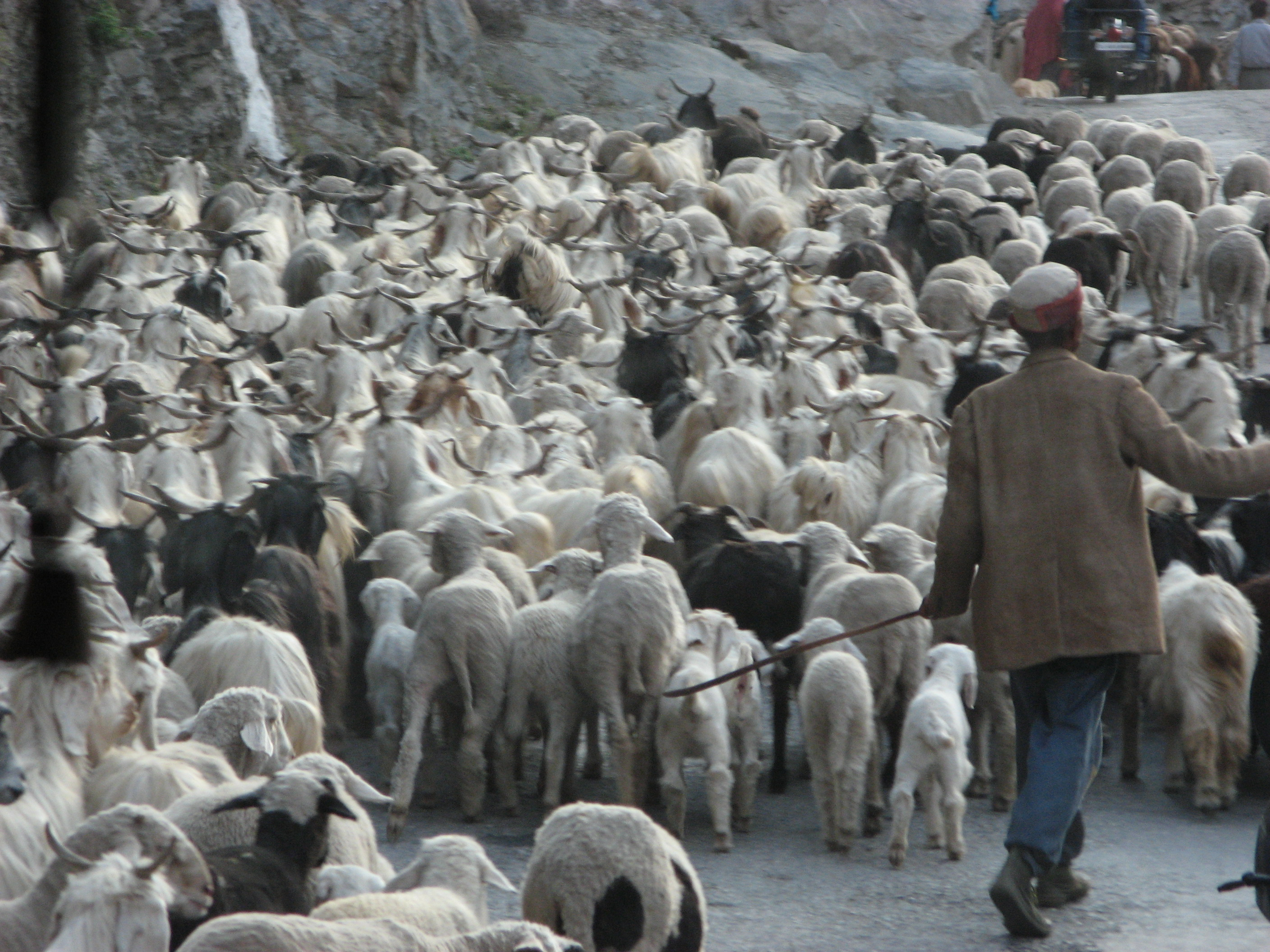 Sheep pastoralists of HP, Himachal Pradeh,India.